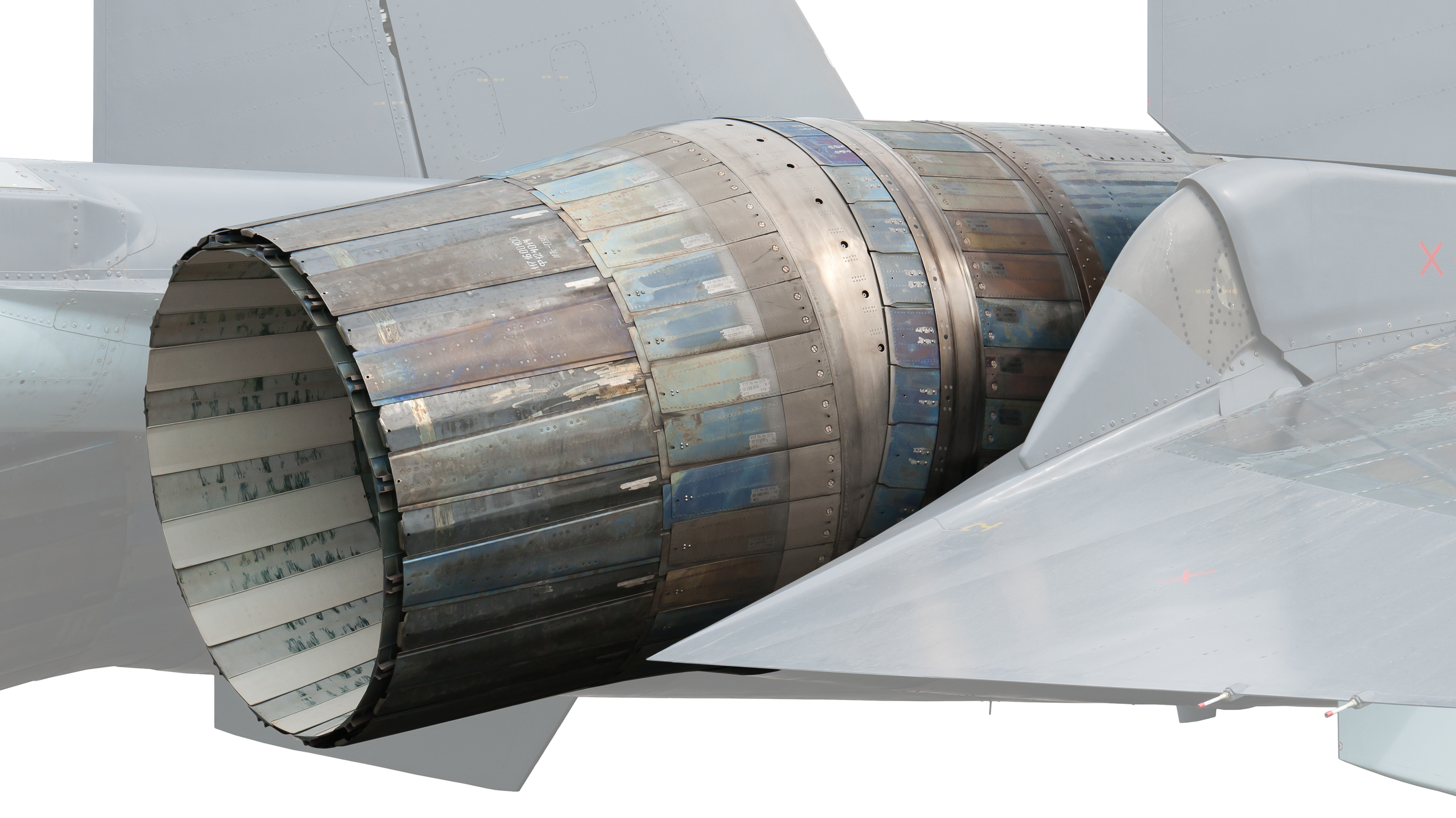 Thrust vectoring nozzle on a Sukhoi Su-35S (reg. 07 RED, c/n unknown) at Paris Air Show 2013.